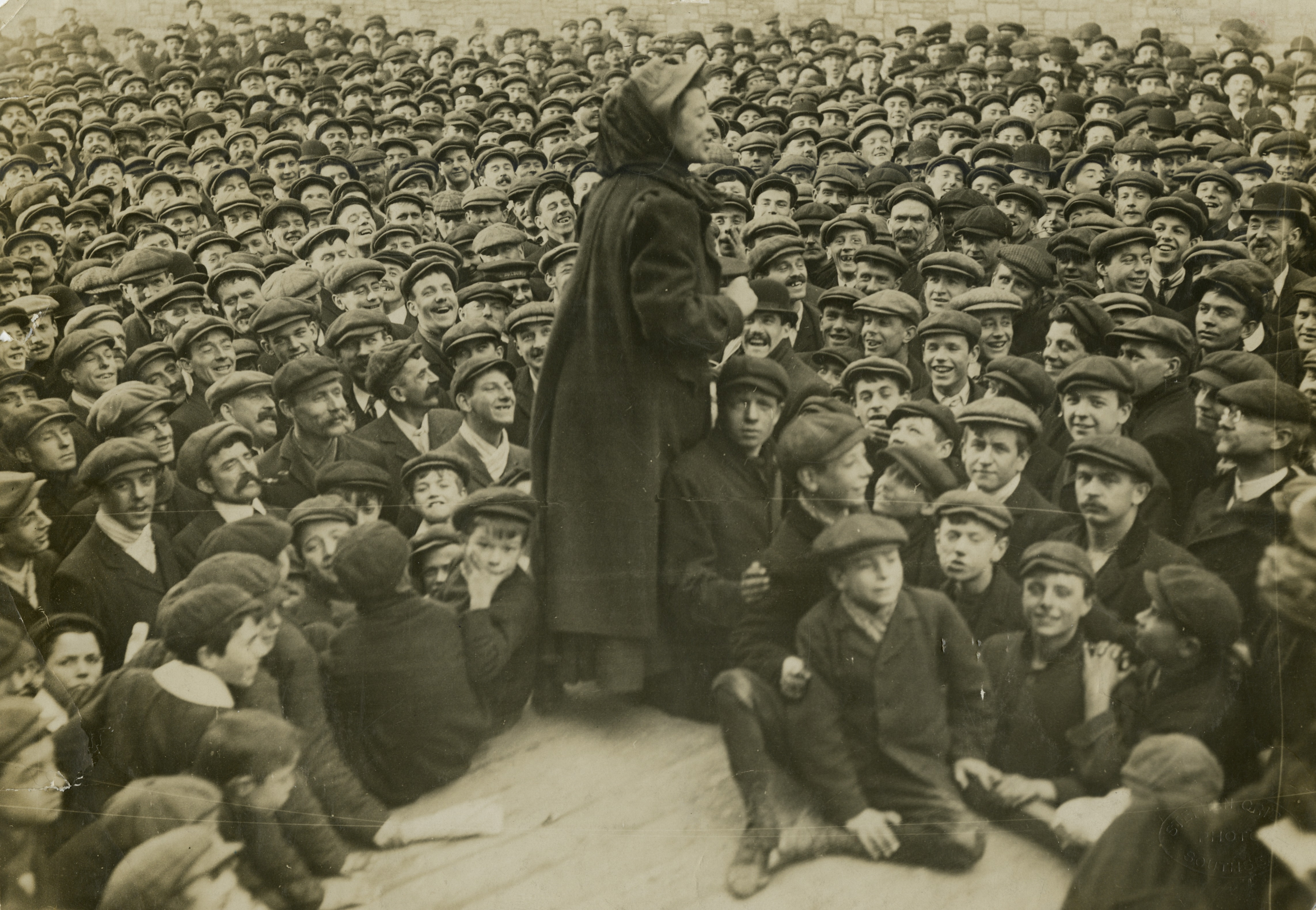 7JCC/O/02/020 Photograph, printed, paper, monochrome, a woman speaking from a platform to a densely packed crowd of men; inscriptions on reverse 'The Suffragettes busy at [Portsmouth]. Miss Douglas Smith make ..??..', and 'From Stephen Cri.., Southsea'